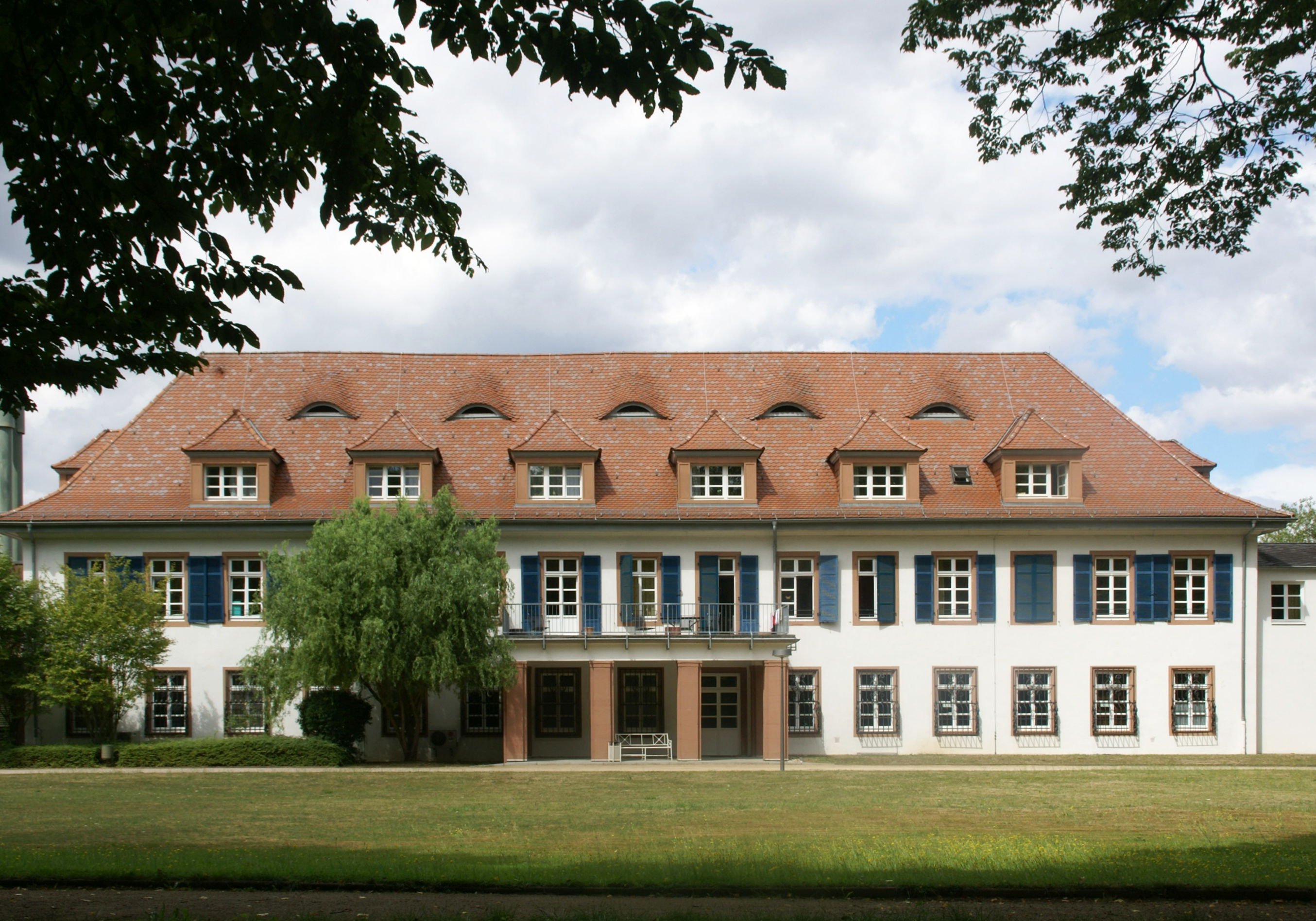 Wasserlos, Schlosshof 1: old part of the building complex named Schlösschen